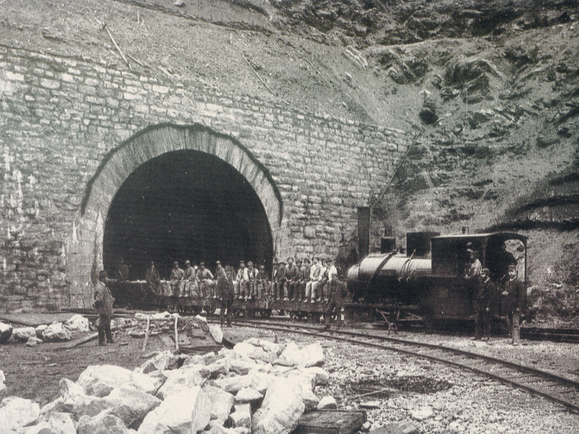 Narrow gauge construction train of the Arlberg railway tunnel in Austria at the Langen entrance